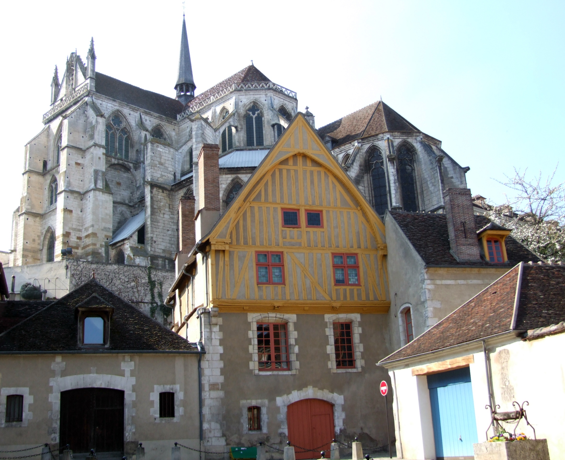 Saint-Germain abbey, Auxerre, Burgundy, FRANCE